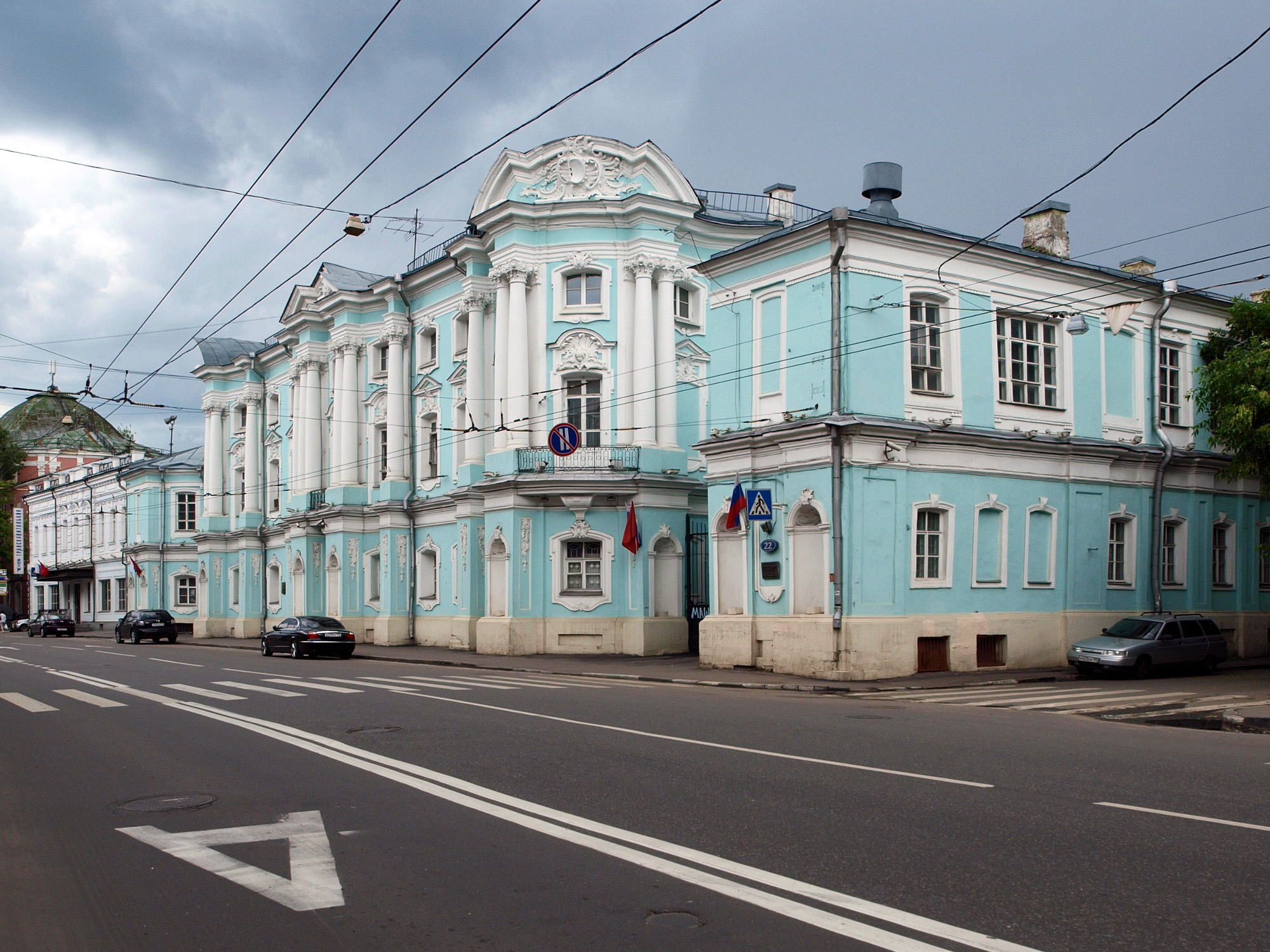 Moscow, 22 Pokrovka St - the Apraksin House (1760s).